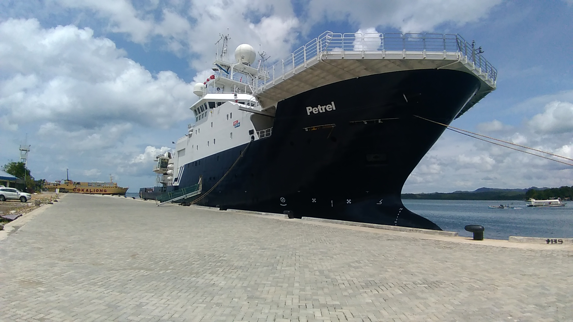 RV Petrel arrives in Surigao City on July 11, 2018, from her drydock and retrofit in Singapore.